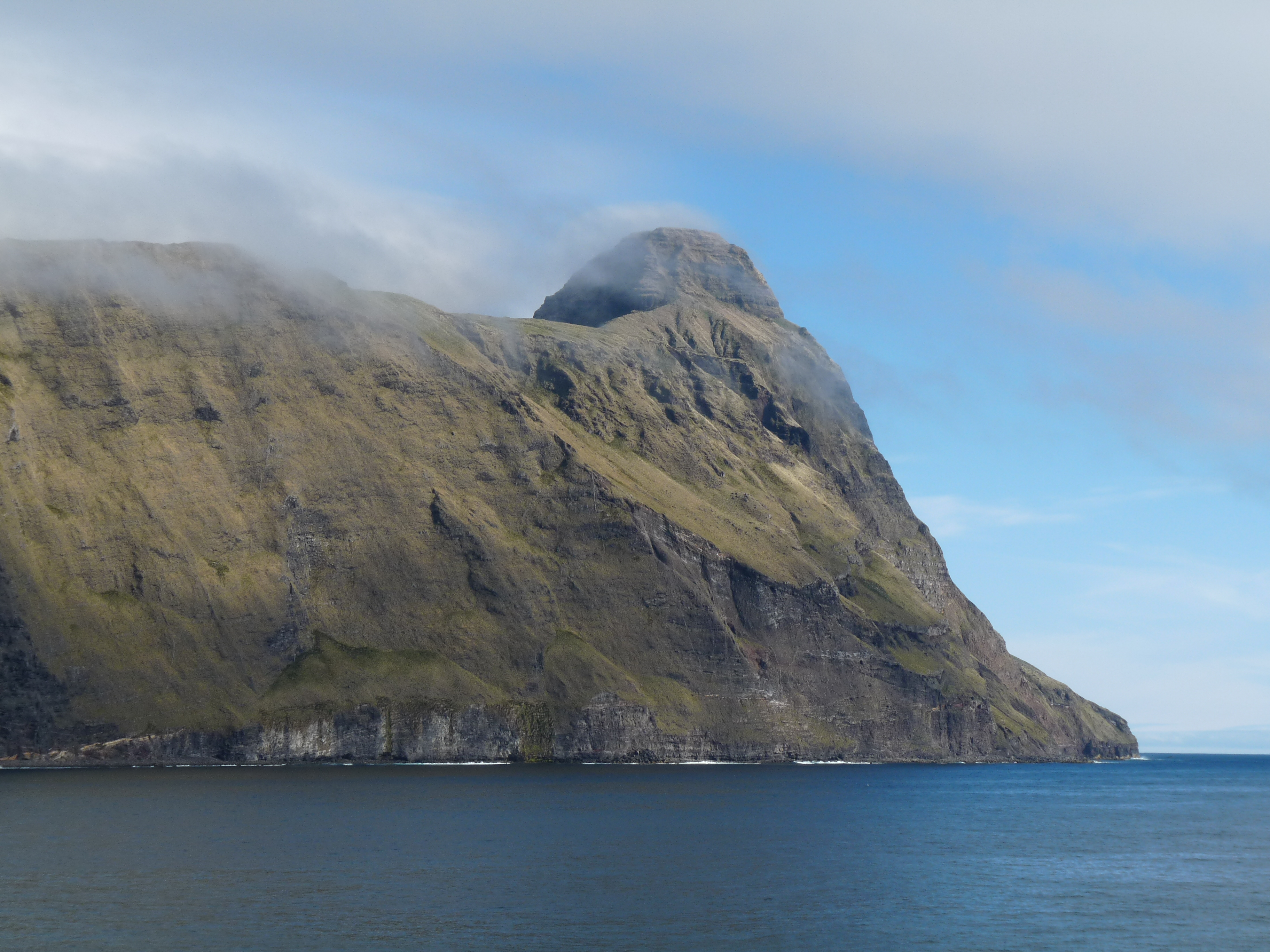 Western coast of Amsterdam Island